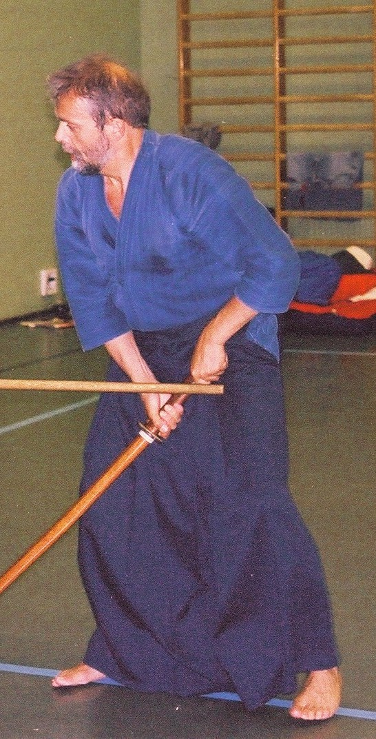 Old Japanese Martial art called Jodo. Technique: Kuri tsuke / kuva Japanilaisen kamppailulajin Jodon tekniikka, Kuri tsuke